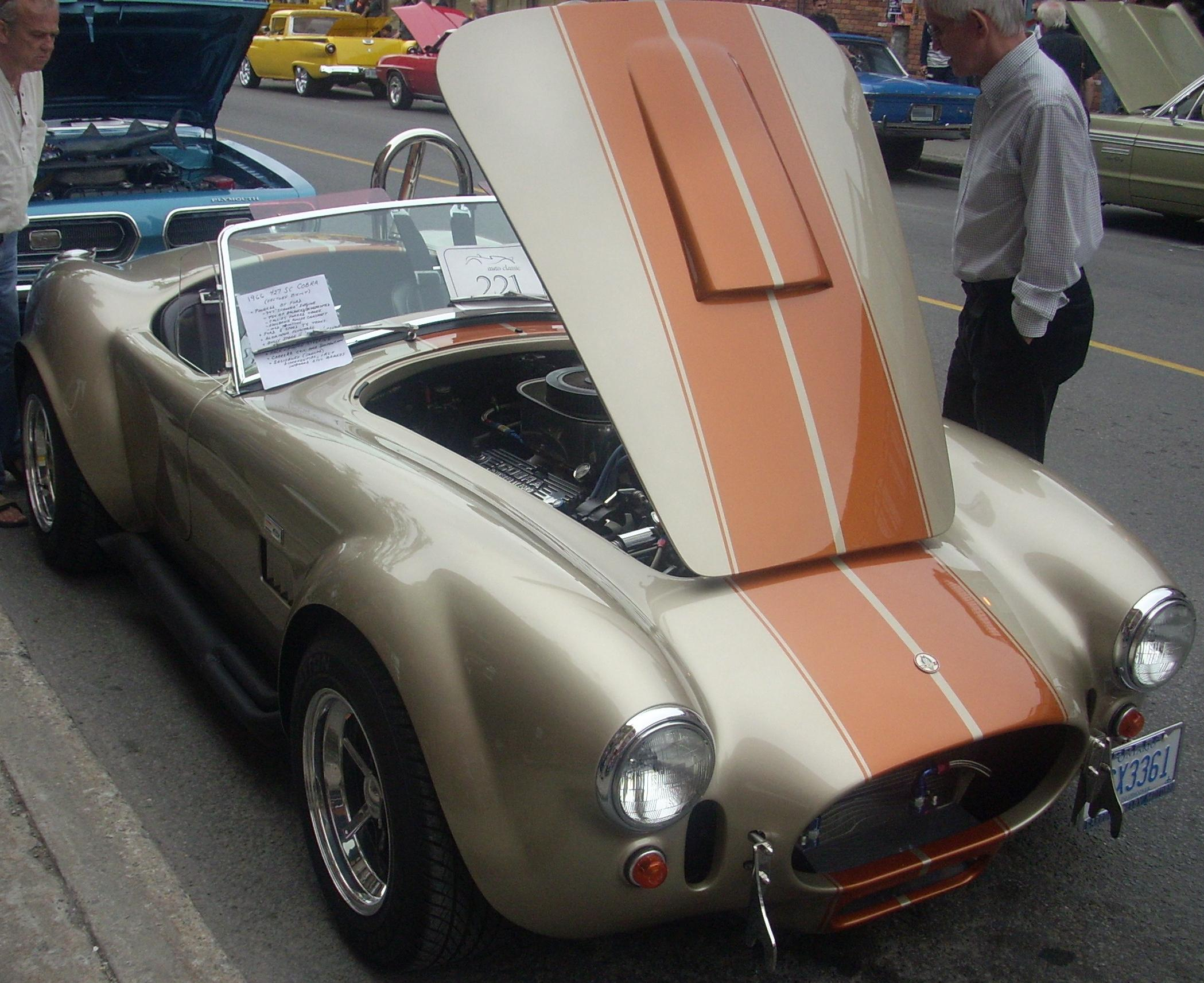 1966 Shelby Cobra photographed in Ottawa, Ontario, Canada at the Byward Market Auto Classic 2009.